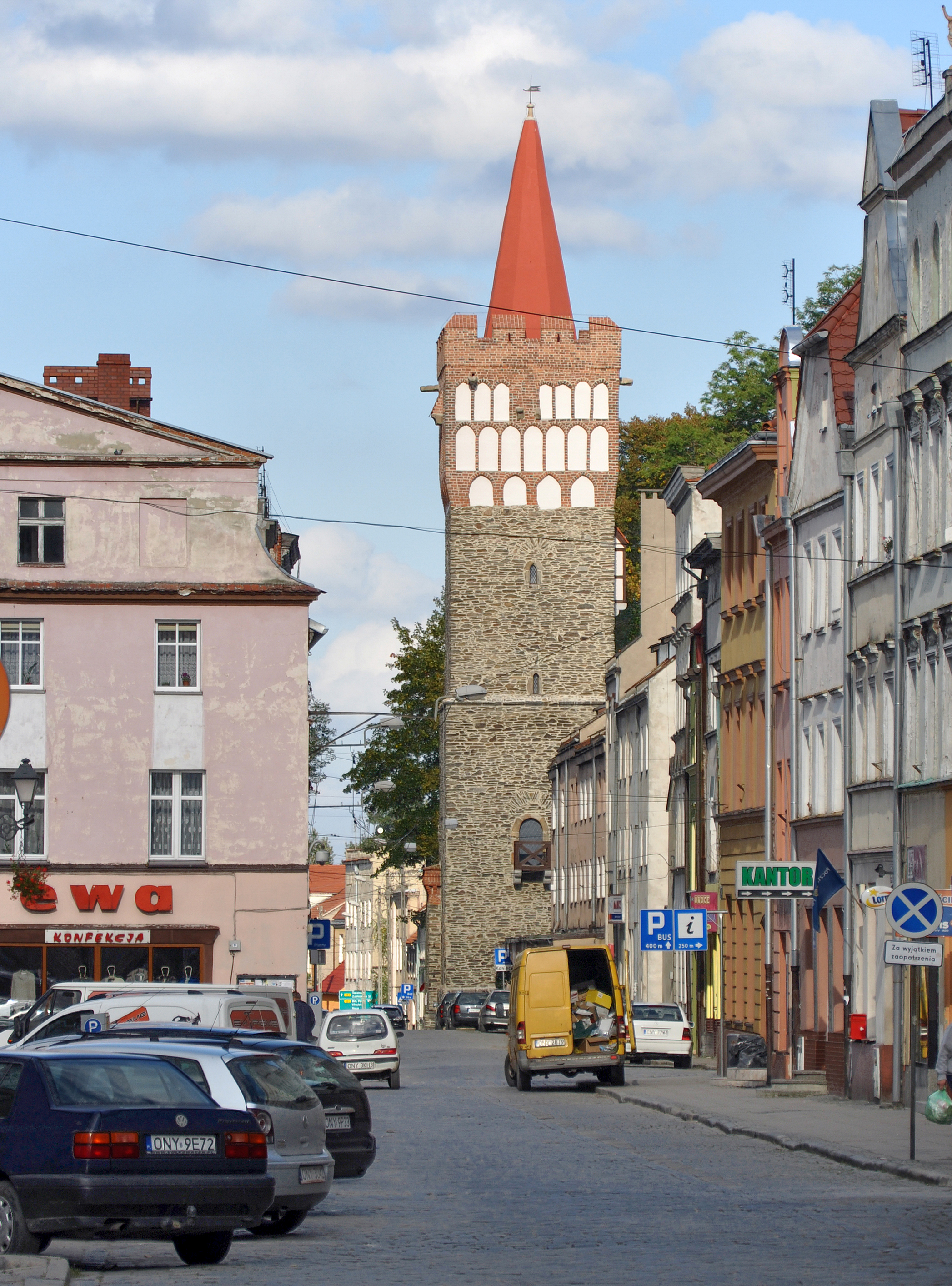 Wrocławska Gate in Paczków